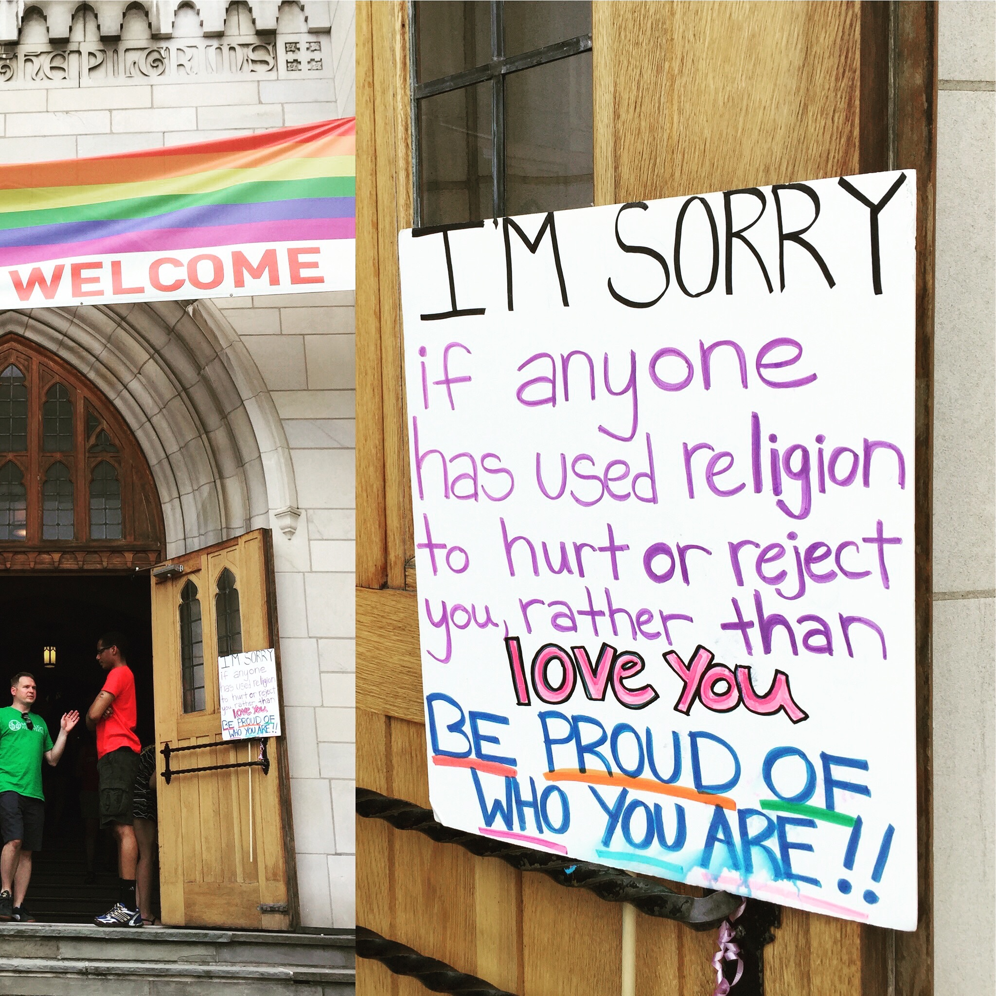 Kaiser Permanente Mid-Atlantic States is a Gold Sponsor of Capital Pride, and a Platinum sponsor of Capital TransPride --- "I'm sorry if anyone has used religion to hurt or reject you rather than to love you. BE PROUD OF WHO YOU ARE!"